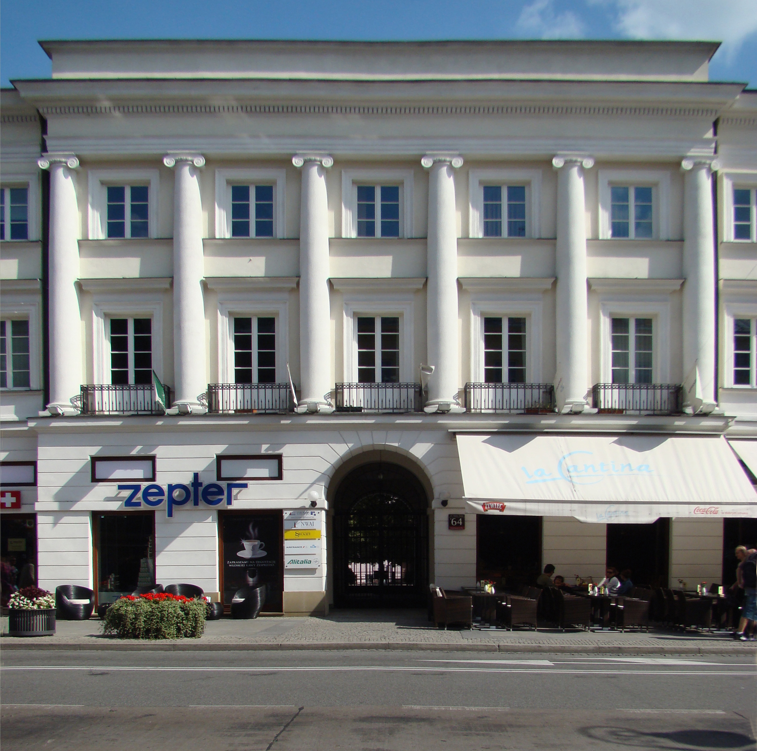 Zrazowski tenement house, Nowy Świat 64, Warsaw, architect Jan Jakub Gay, 1849